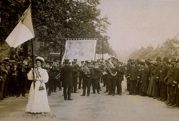 Dorothy Radcliffe (16 September 1887 – 1959) holding a purple, white and green flag on Woman's Sunday, 21 June 1908 when 300,000 watched 30 bands, the suffragettes and 700 banners on their way to Hyde Park.